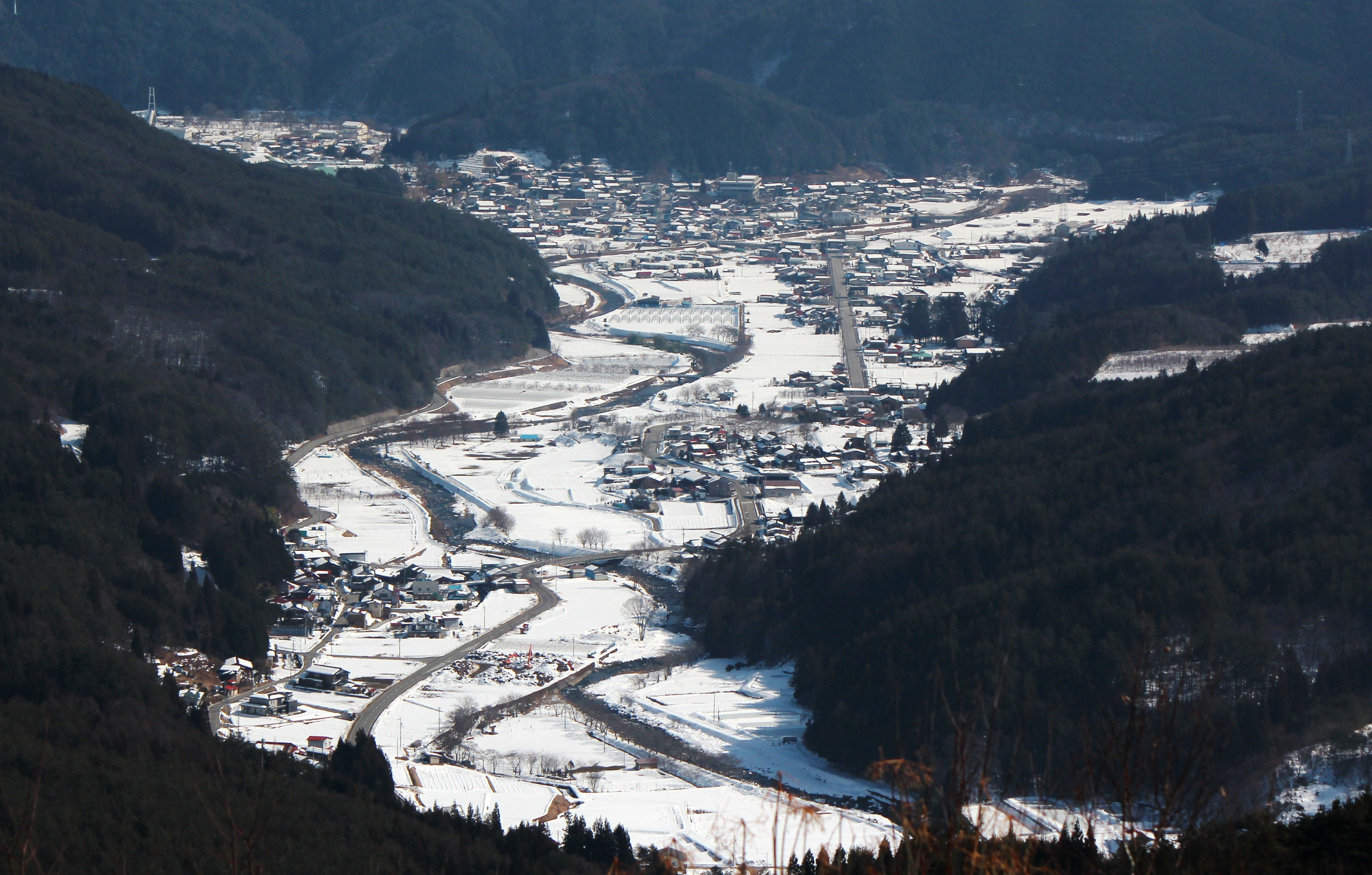 Kuguno,Takayama, Gifu, Japan from Mount Kurai.